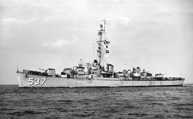 The U.S. Navy destroyer escort USS Rizzi (DE-537) off Havanna, Cuba, in 1954. Rizzi was recommissioned on 28 March 1951, she proceeded to New York (USA), whence she conducted training cruises - weekend and 2-week cruises along the U.S. East Coast and in the Caribbean, and summer cruises to Europe in 1953 and 1955 and to South America in 1954 - for reservists in the New York City area. She was finally decommissioned 28 February 1958.